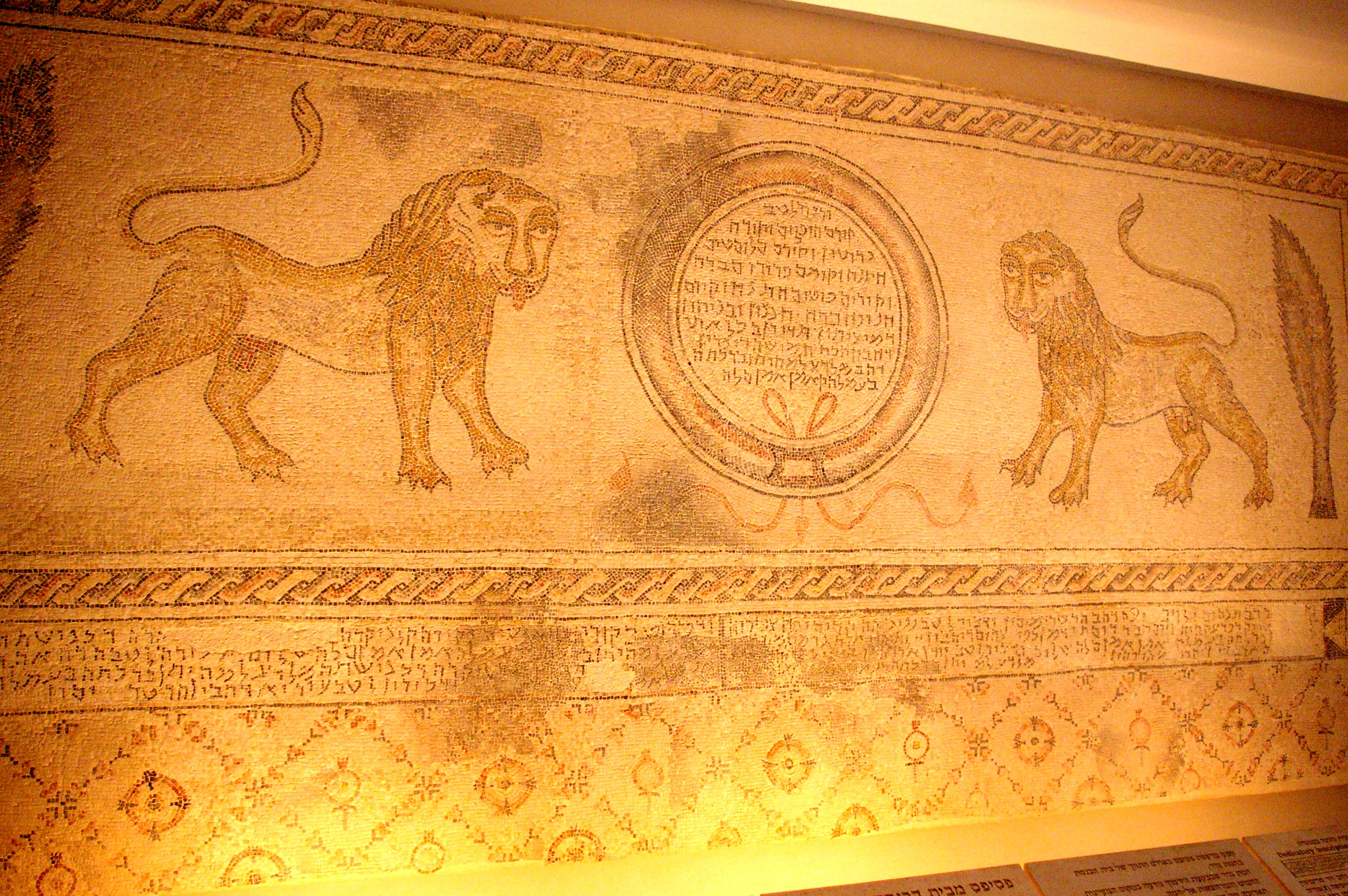 West Jerusalem - Entrance hall of the Supreme Court of Israel - A section of the mosiac pavement recovered from the Hamat Gader synagogue and restored in the '90s. It was in that synagogue from the 5th-8th century.